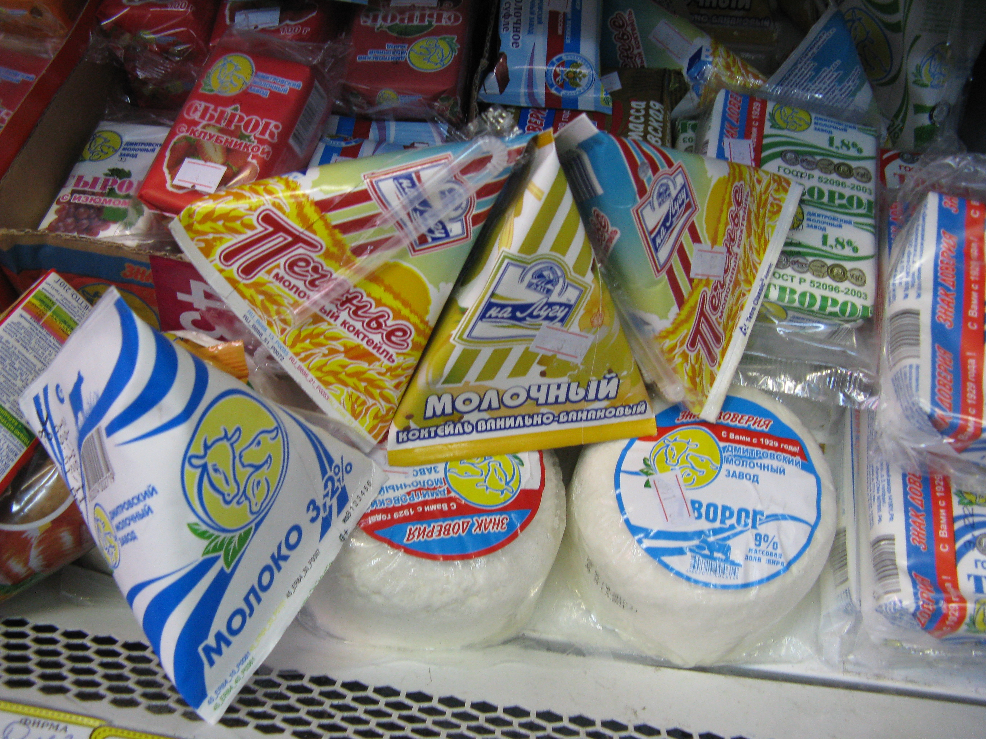 An illustration of a close-packing arrangement of tetrahedra, using tetrahedral milk cartons